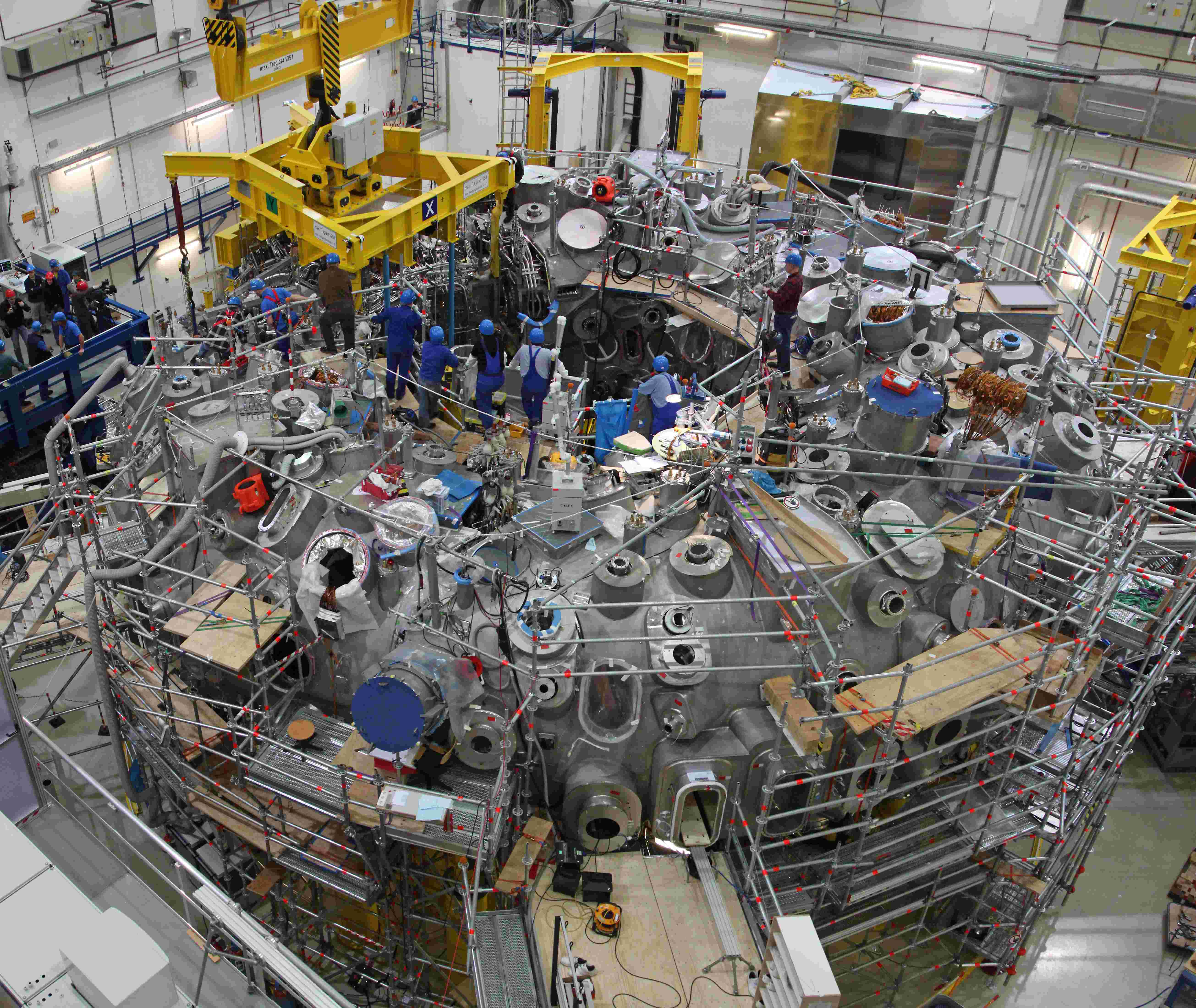 The last of the five field-period modules of the stellarator experiment Wendelstein 7-X was installed at the end of 2011.